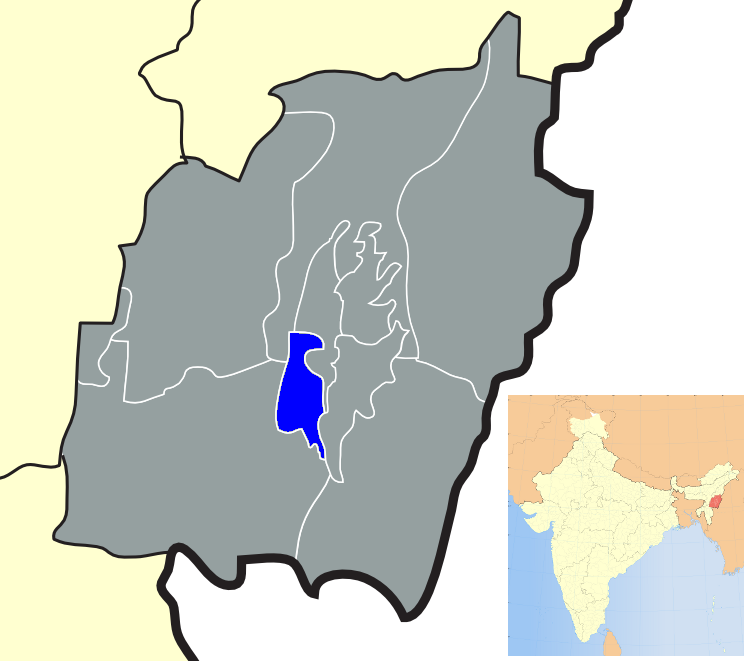 This is a retouched picture, which means that it has been digitally altered from its original version. The original can be viewed here: India Manipur locator map.svg.